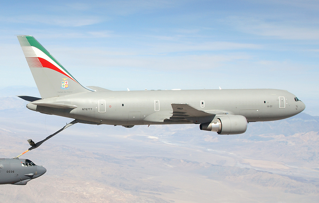 An Italian Air Force Boeing KC-767 tanker (s/n 14-01) refuels a U.S. Air Force Boeing B-52H-150-BW Stratofortress (s/n 60-0036) over California's Mojave Desert on 5 March 2007. The tanker was testing its refueling equipmet at Edwards Air Force Base, California (USA).